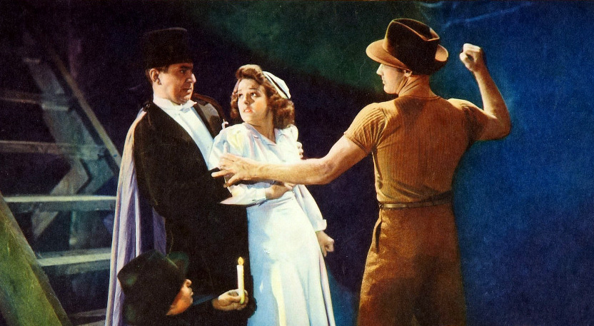 Cropped and edited lobby card for the American movie Spooks Run Wild (Monogram, 1941) featuring Bela Lugosi. As a low budget comedy-thriller, the film allowed Lugosi to parody his most famous role.